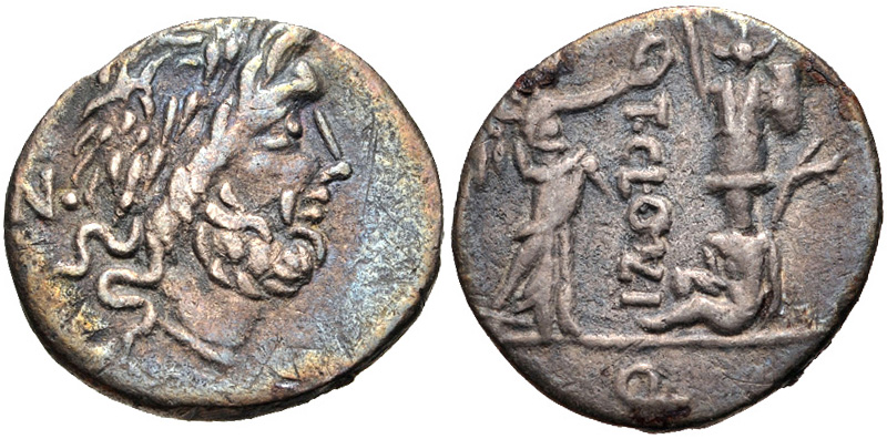 T. Cloelius. 98 BC. AR Quinarius (15mm, 1.67 g, 2h). Rome mint. Laureate head of Jupiter right; to left, N• behind / Victory standing right crowning trophy; before trophy, bound captive seated left, head facing; carnyx to right, Q (mark of value) in exergue. Crawford 332/1a; King 33; Sydenham 586; Cloulia 2. VF, toned, even roughness in fields.